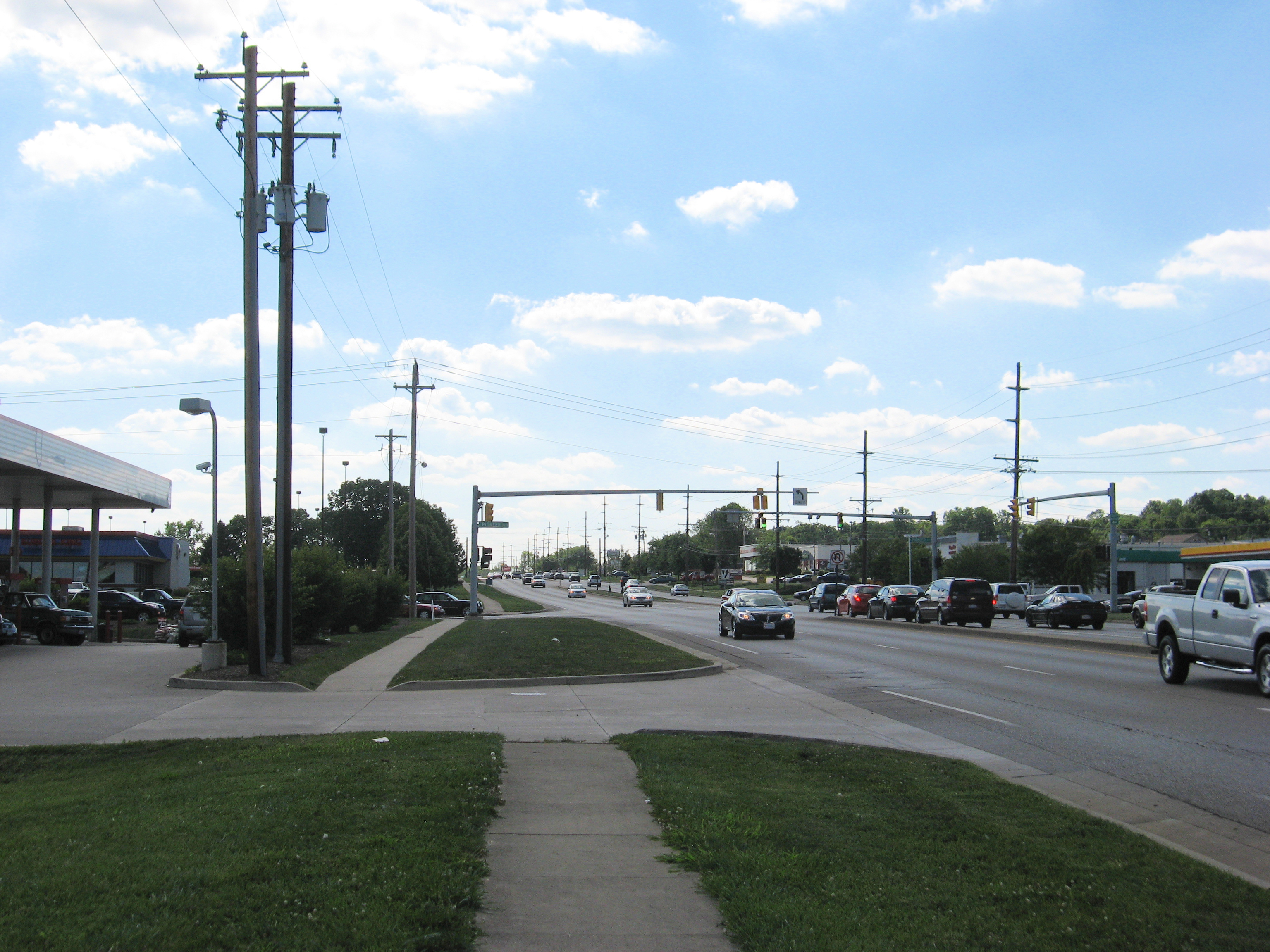 Downtown Springboro (Springboro, USA)